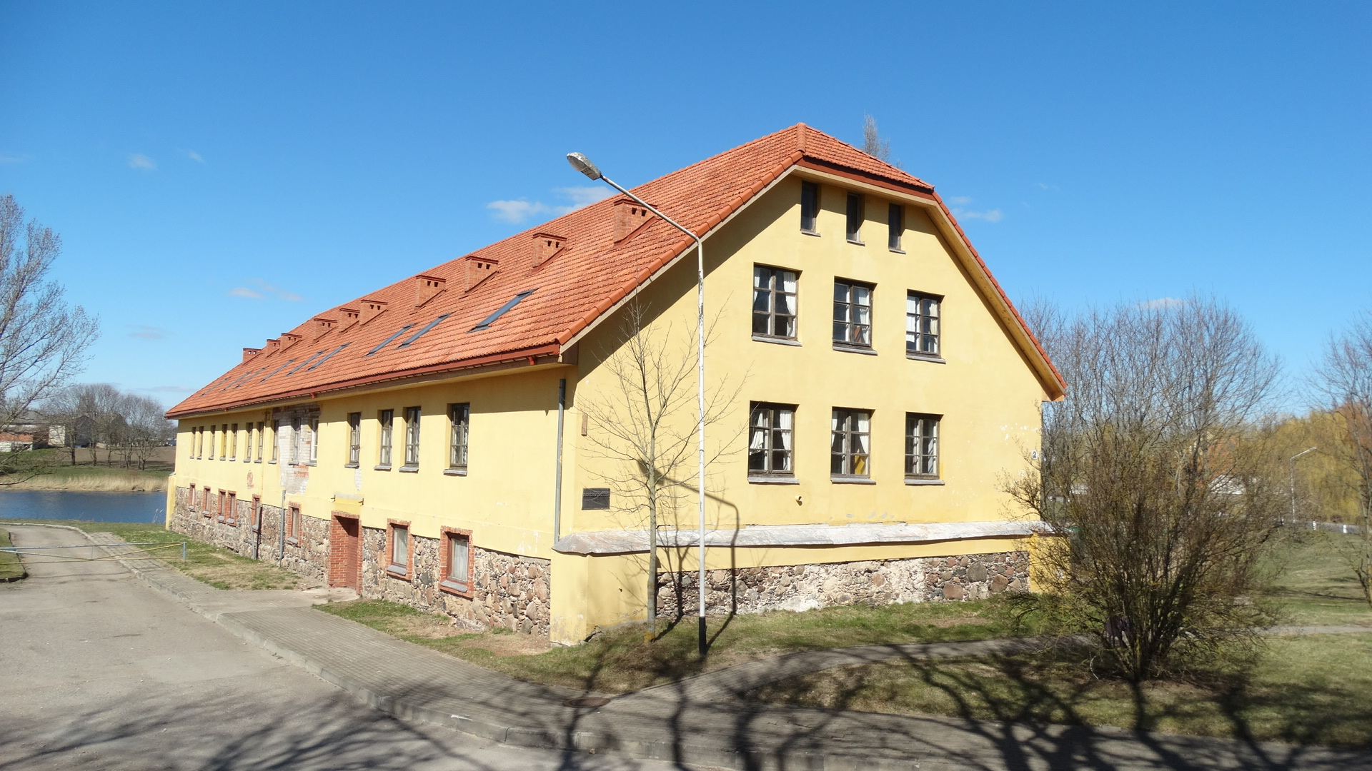 Šeduva manor, Raudondvaris, Radviliškis district, Lithuania